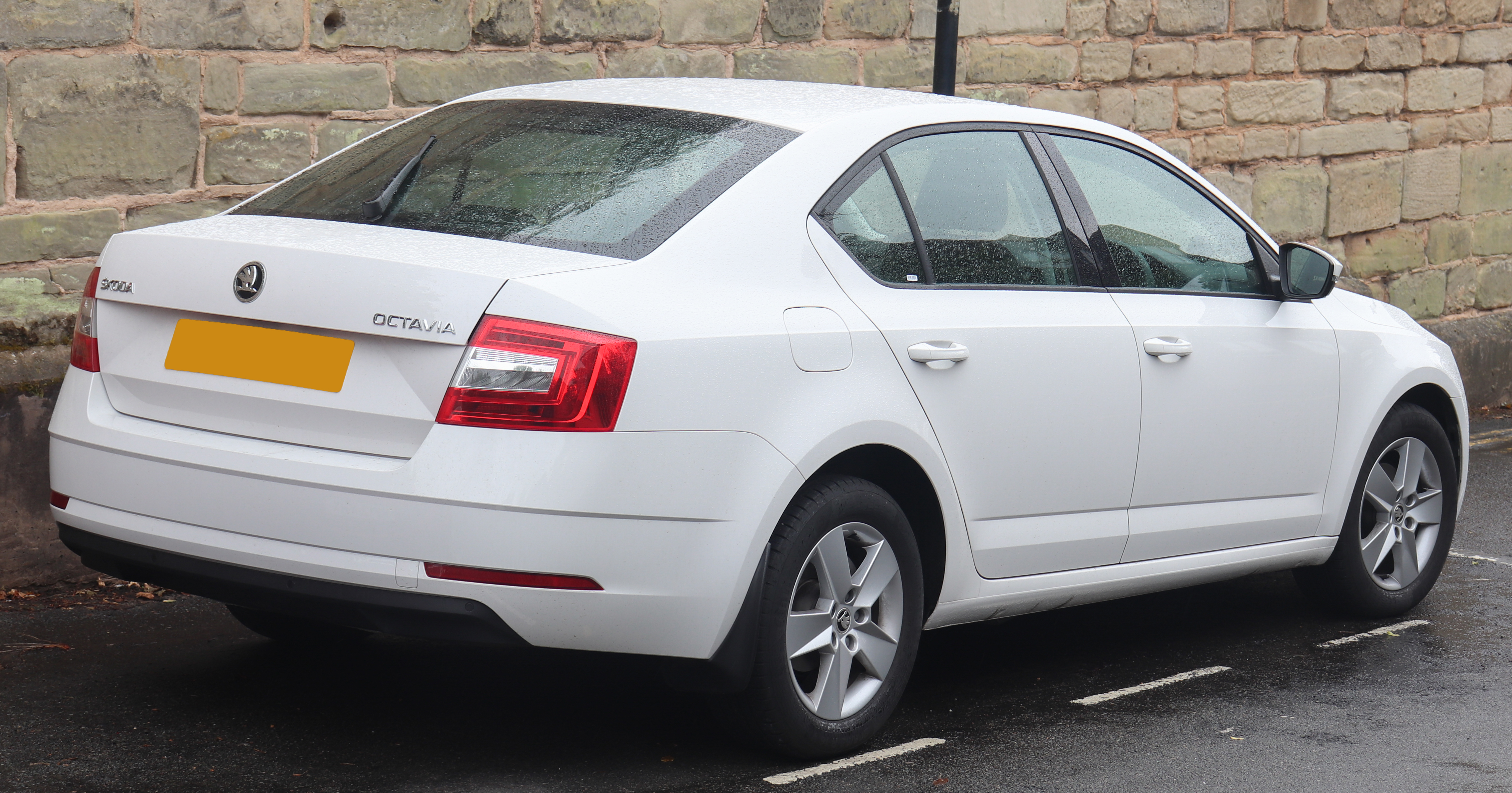 2018 Skoda Octavia SE TDi S-A 1.6 Rear Taken in Warwick